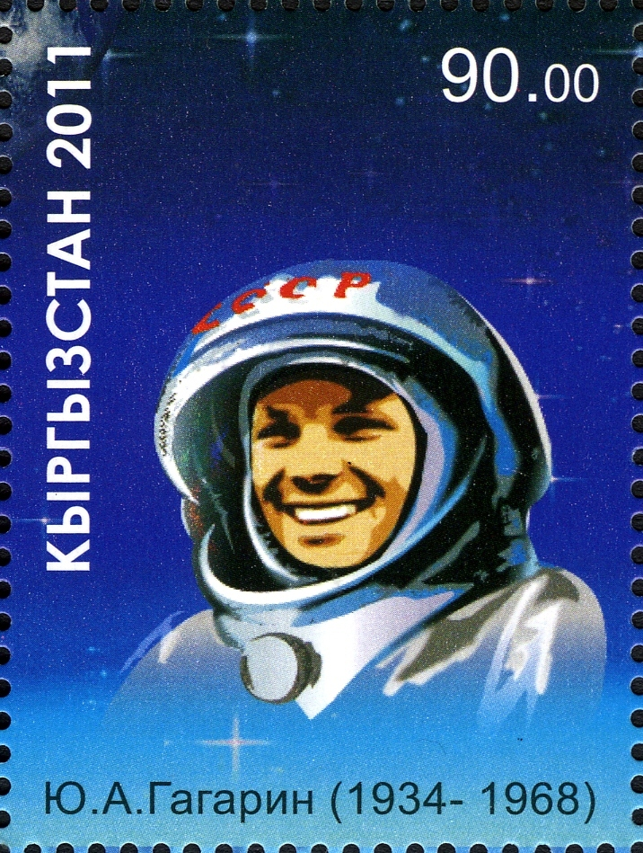 Stamps of Kyrgyzstan, 2011